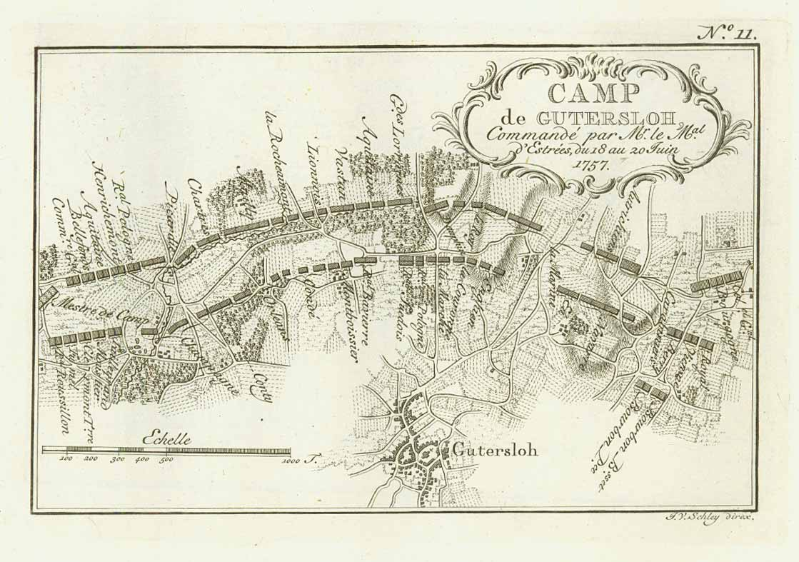 Gütersloh